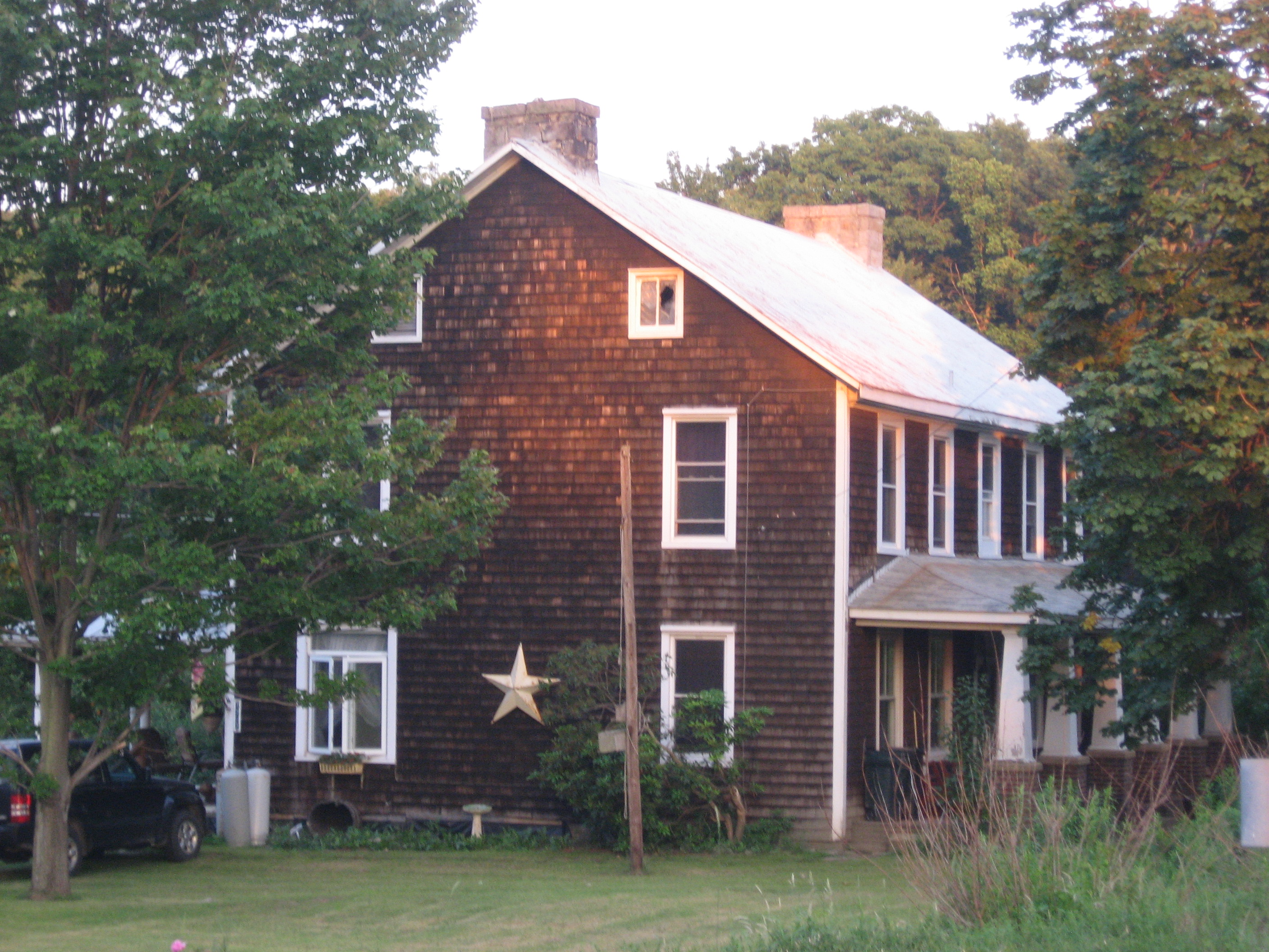 Western side and front of the Wable-Augustine Tavern, located along U.S. Route 40 southeast of Addison in Addison Township, Somerset County, Pennsylvania, United States. Built in 1820, it is listed on the National Register of Historic Places.